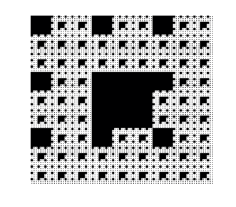 Matlab code to generate the image can be found at